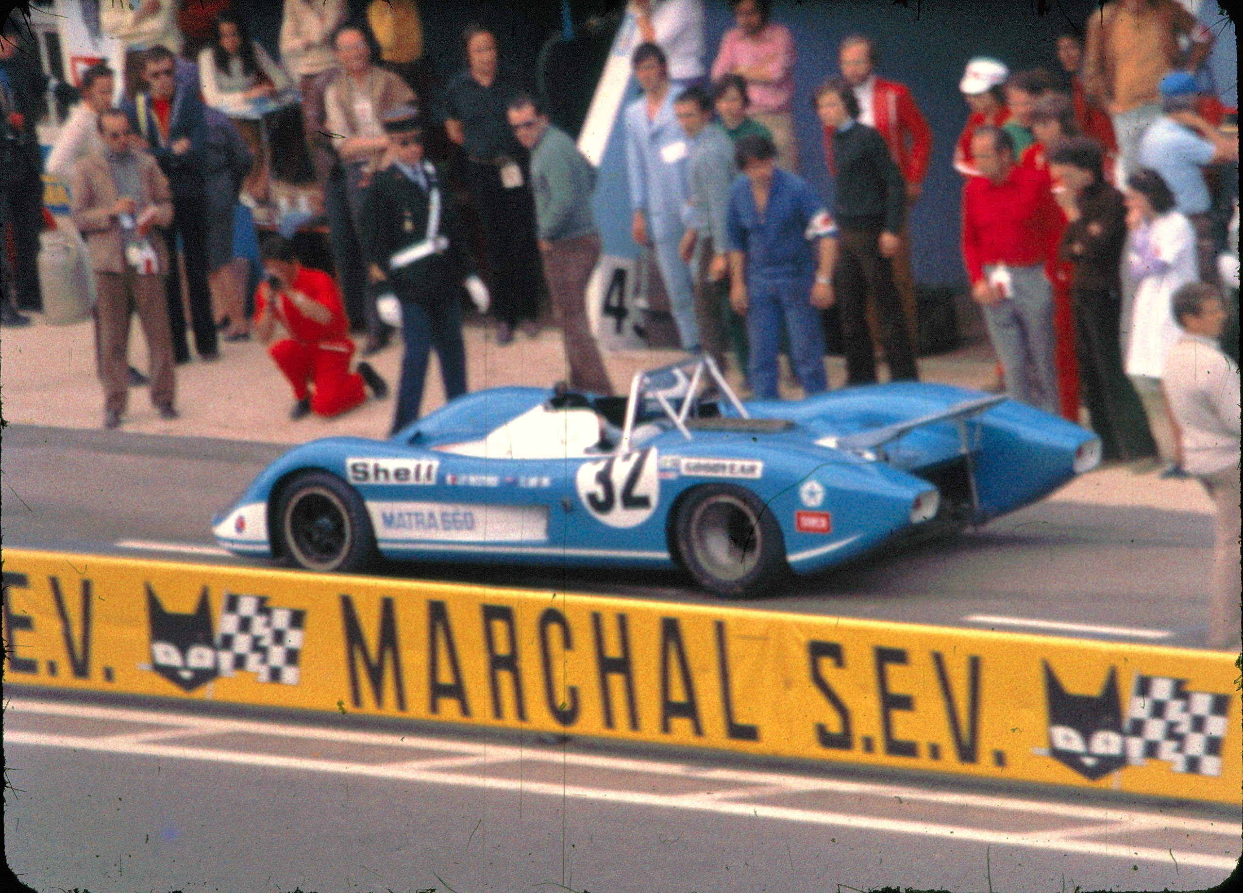 Matra Simca MS 660 N°32 Equipe Matra Technique : Catégorie : SP Moteur : V12 Matra Simca 2993 cm3 Pneus : Goodyear Pilotes : Jean Pierre Beltoise Chris Amon